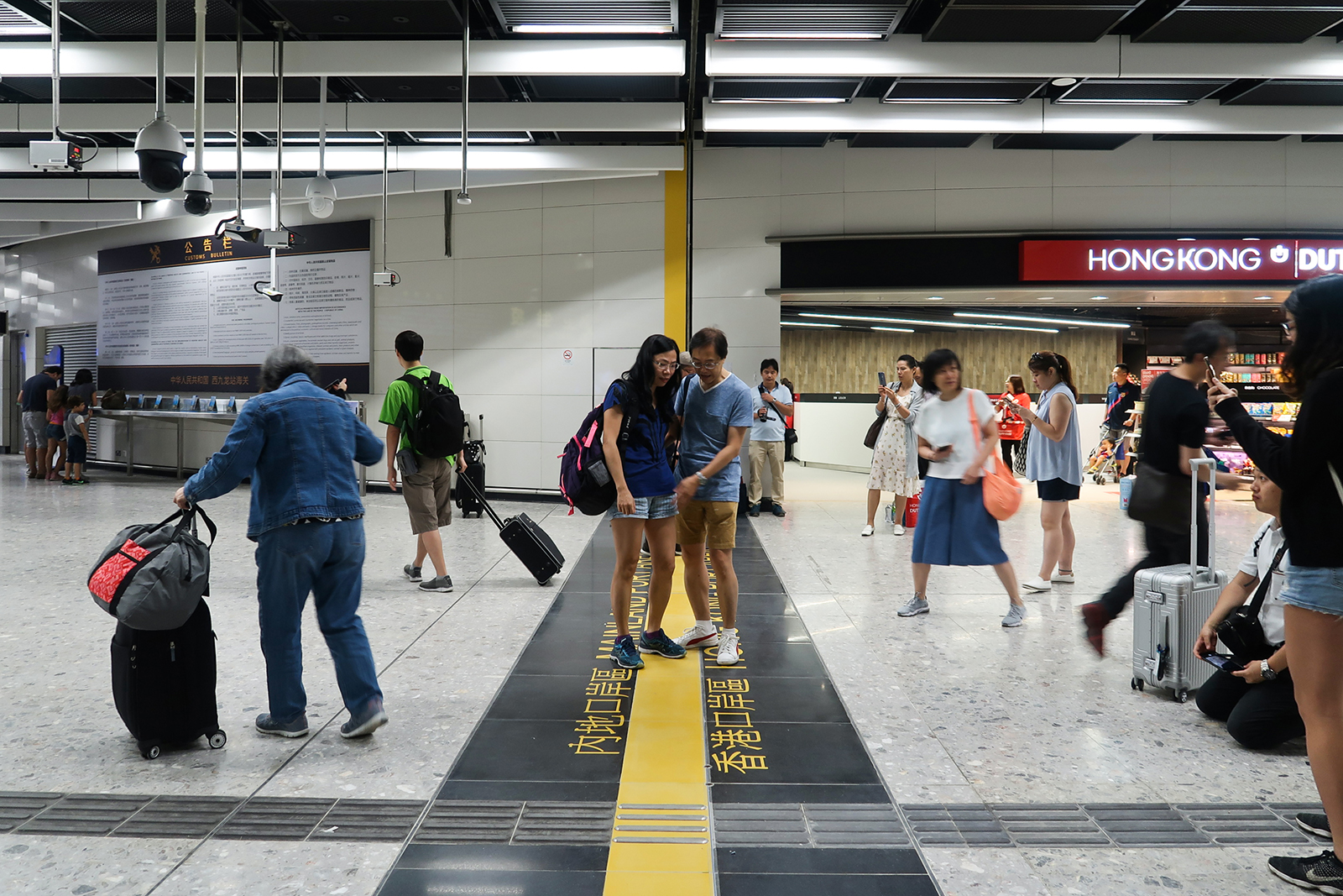 West Kowloon Station Mainland Port Area B3 Boarders take pic